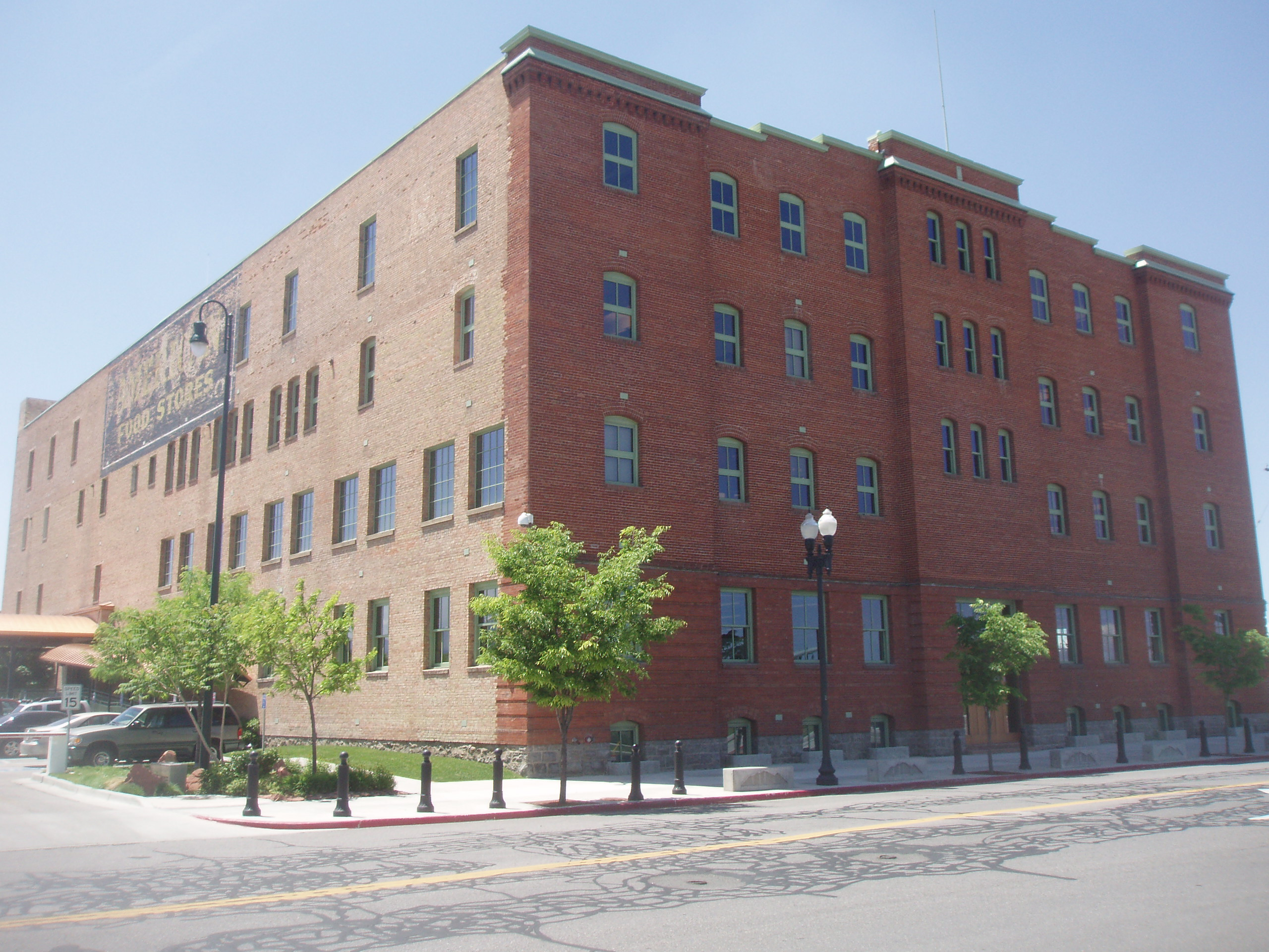 The Scowcroft Warehouse, a historic building in Ogden, Utah, United States.